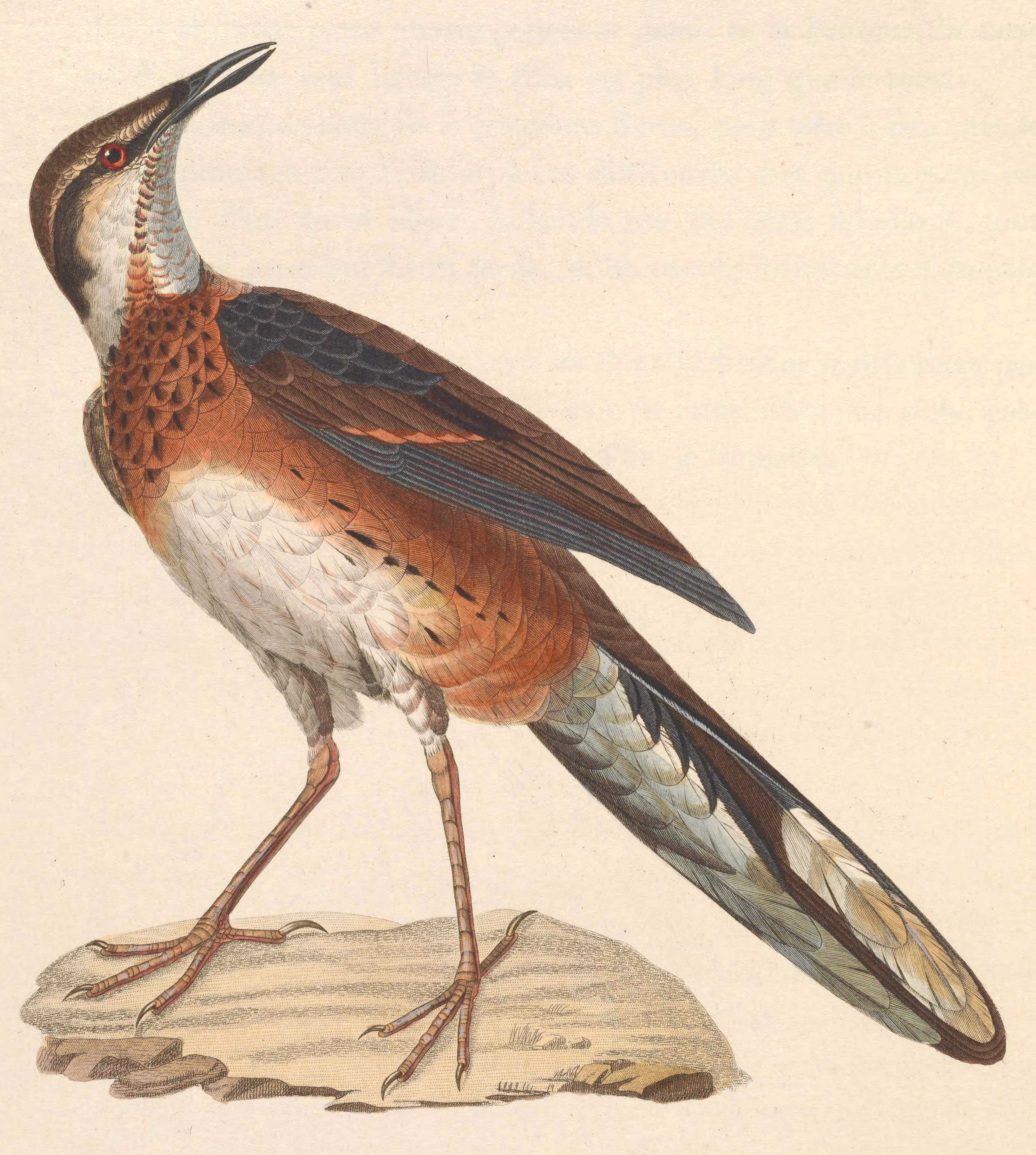 « Eupetes ajax » = Cinclosoma ajax (Painted Quail-thrush) - adult female